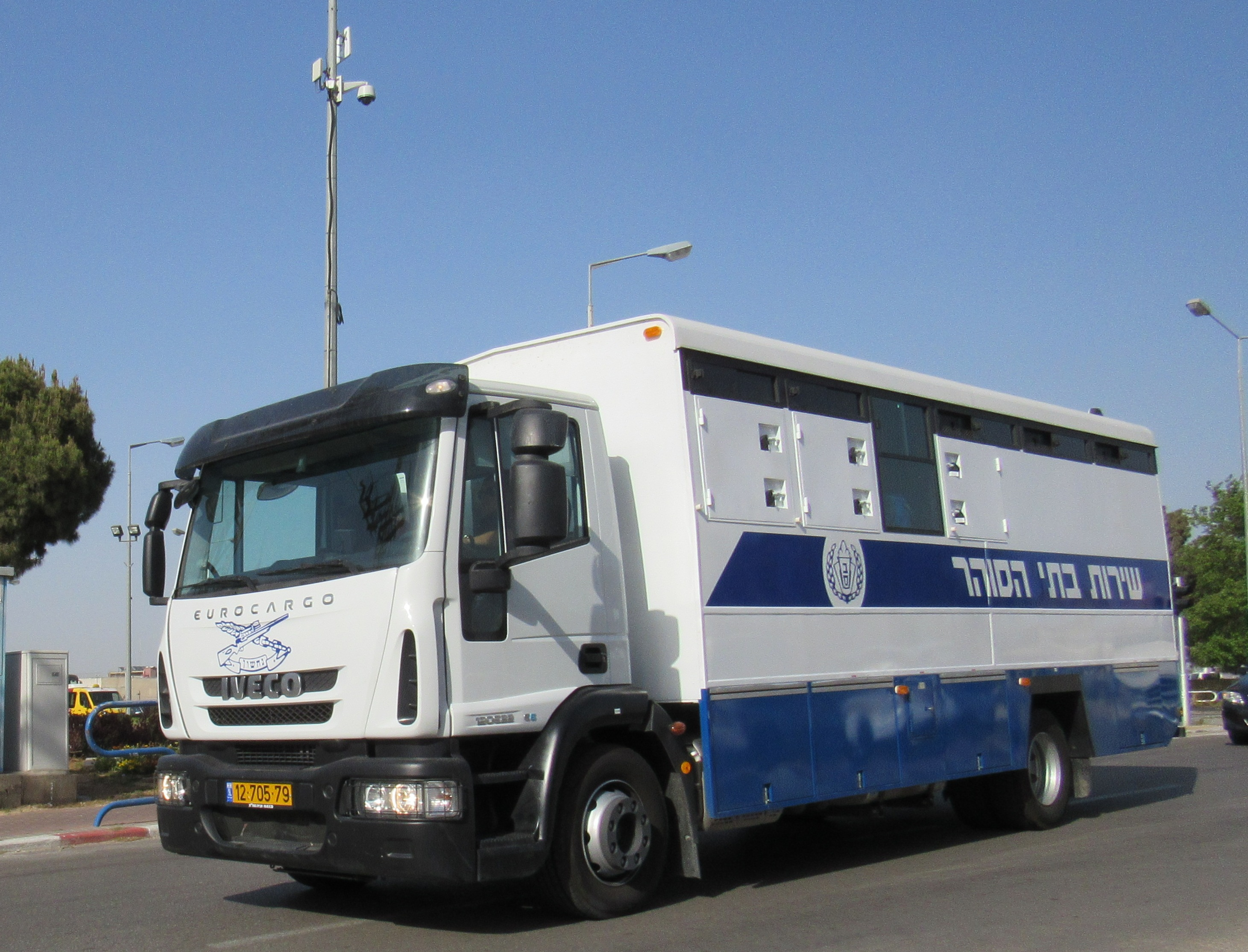 Prisoner transport vehicle. Ashdod.